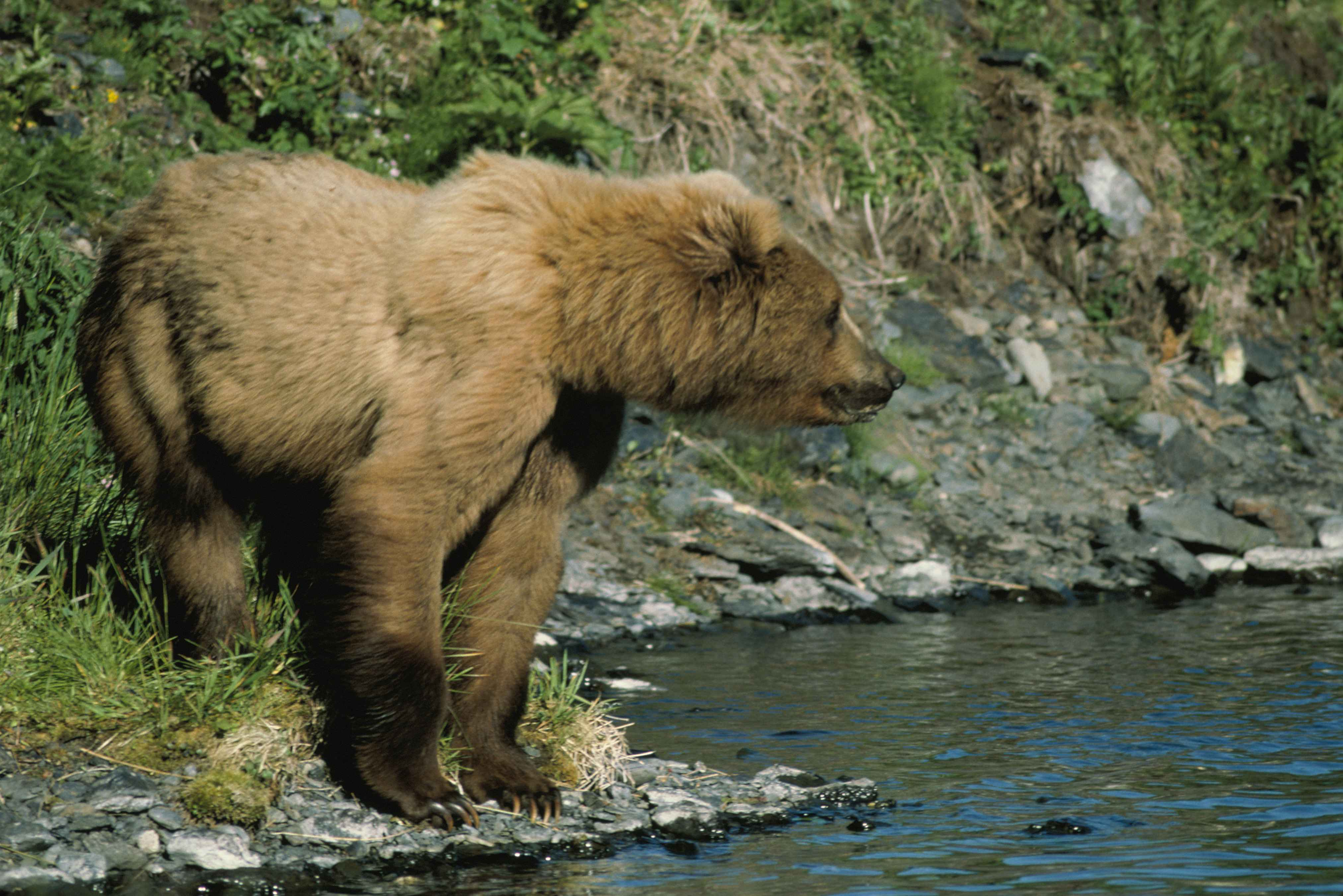 Image title: Kodiak bear Ursus arctos middendorffi Image from Public domain images website